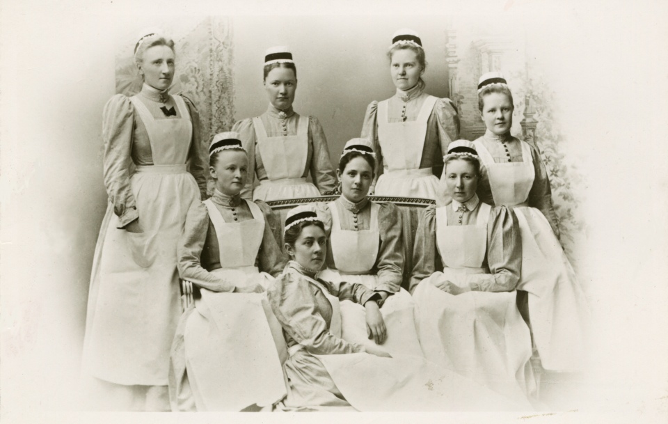 Nurses from the hospital Sophiahemmet in Stockholm in Sweden. The nurse standing on the far left is Emmy Lindhagen.